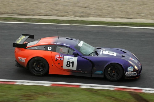 Team LNT TVR T400R at the 2005 1000km of Spa